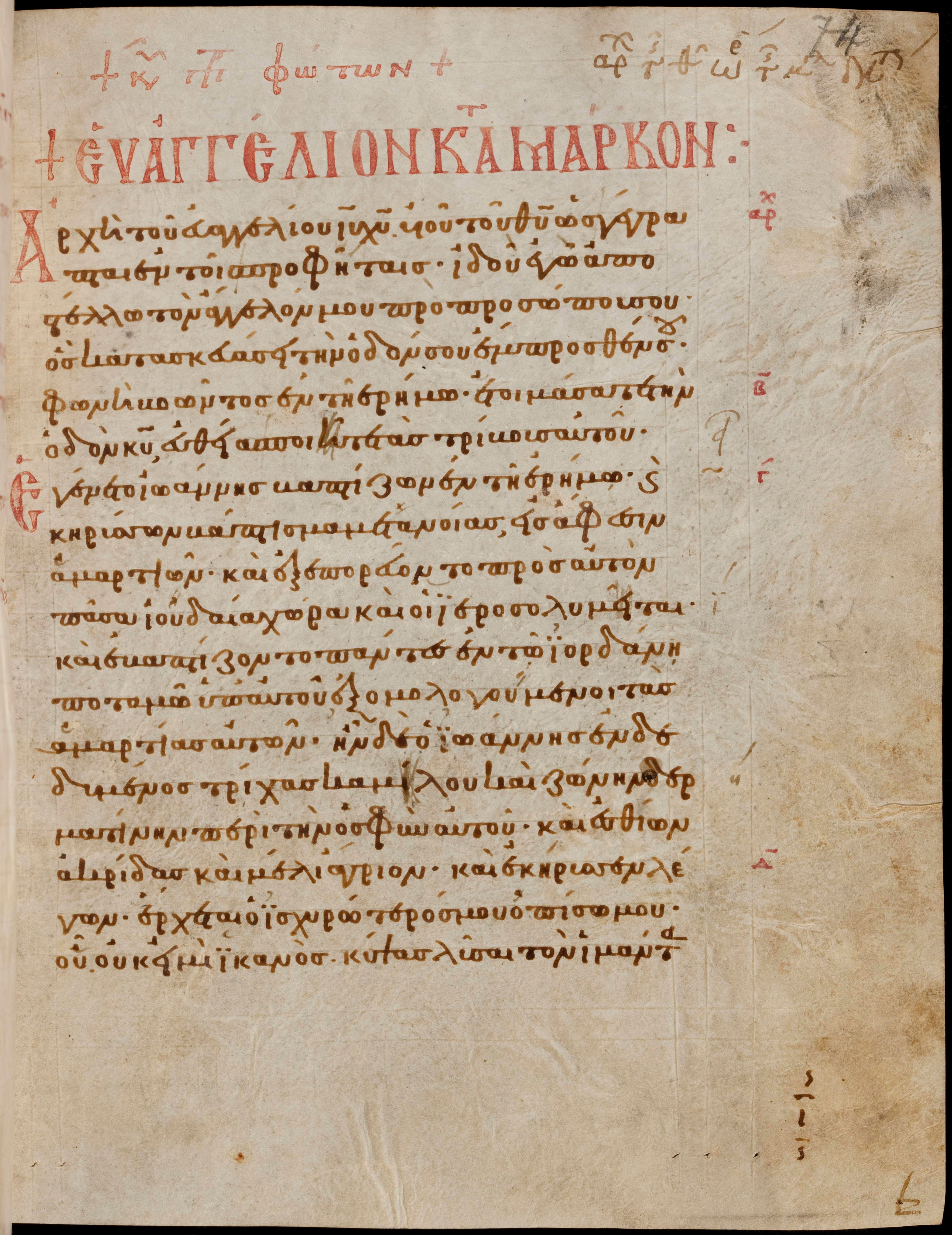 the beginning of the Gospel of Mark